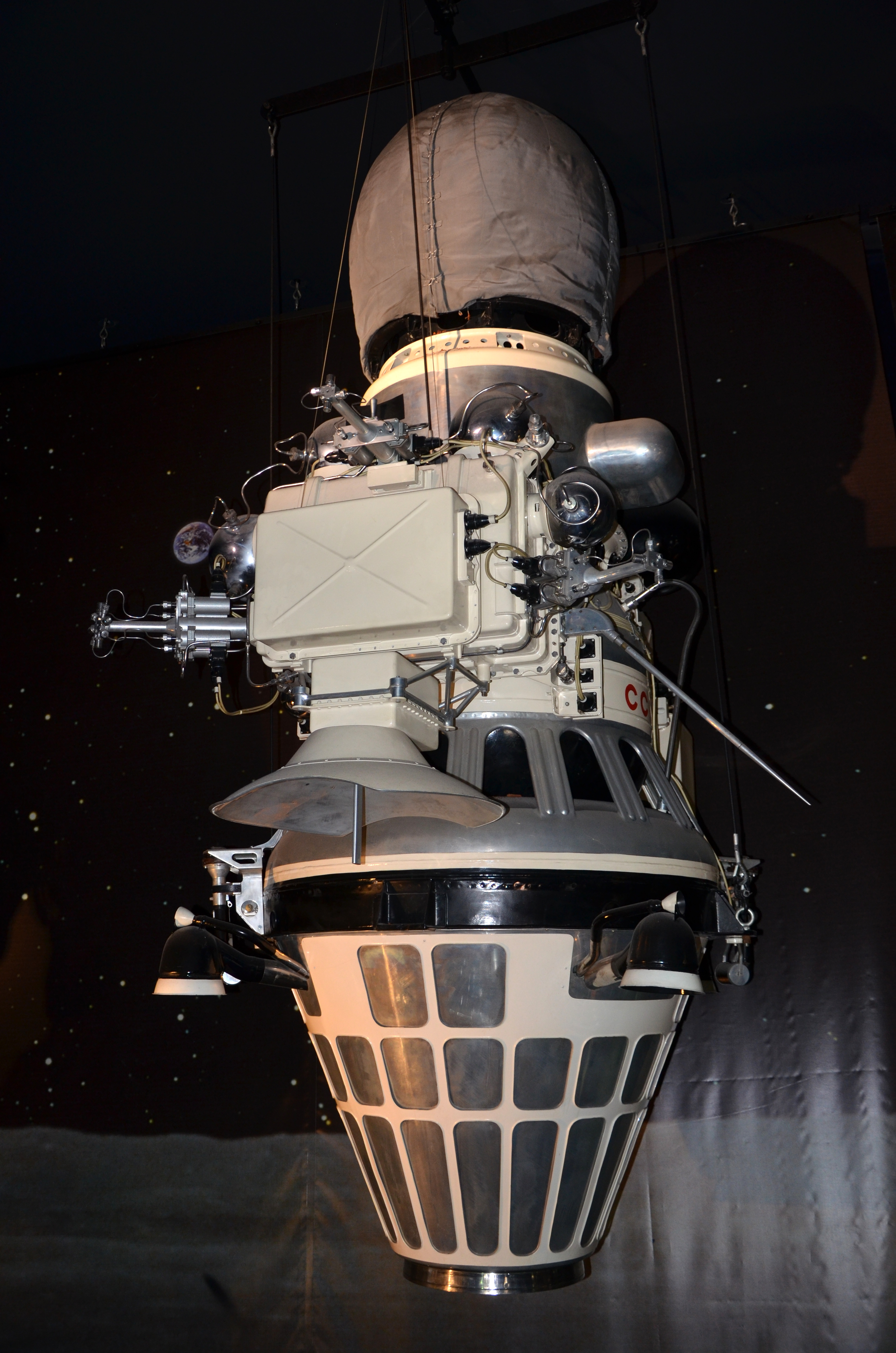 Mockup of the Lunar 9 soviet satellit (1966), Museum of Air and Space Paris, Le Bourget (France)